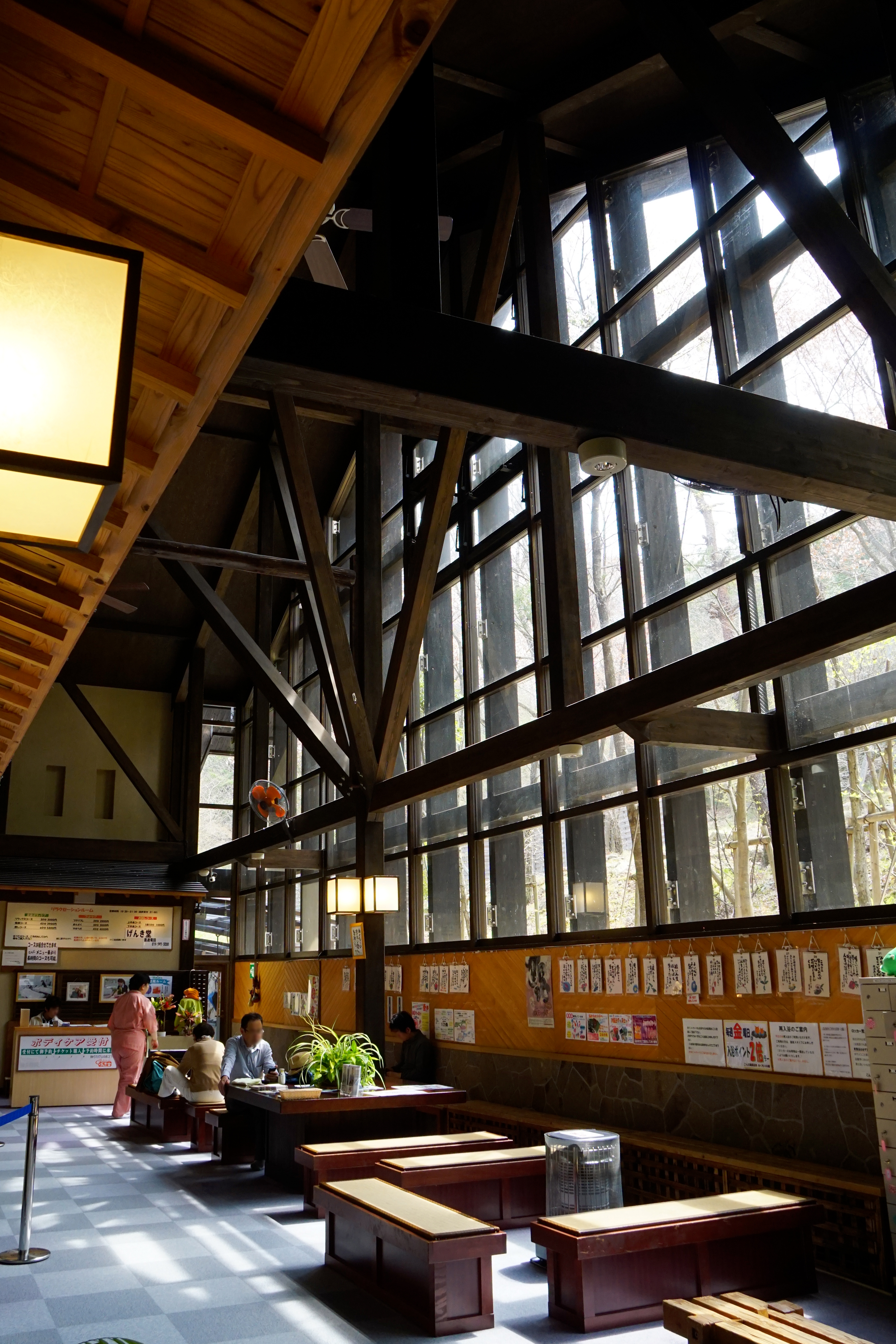 Konda Yakushi Onsen Nukumori-no-sato in Sasayama, Hyogo prefecture, Japan.